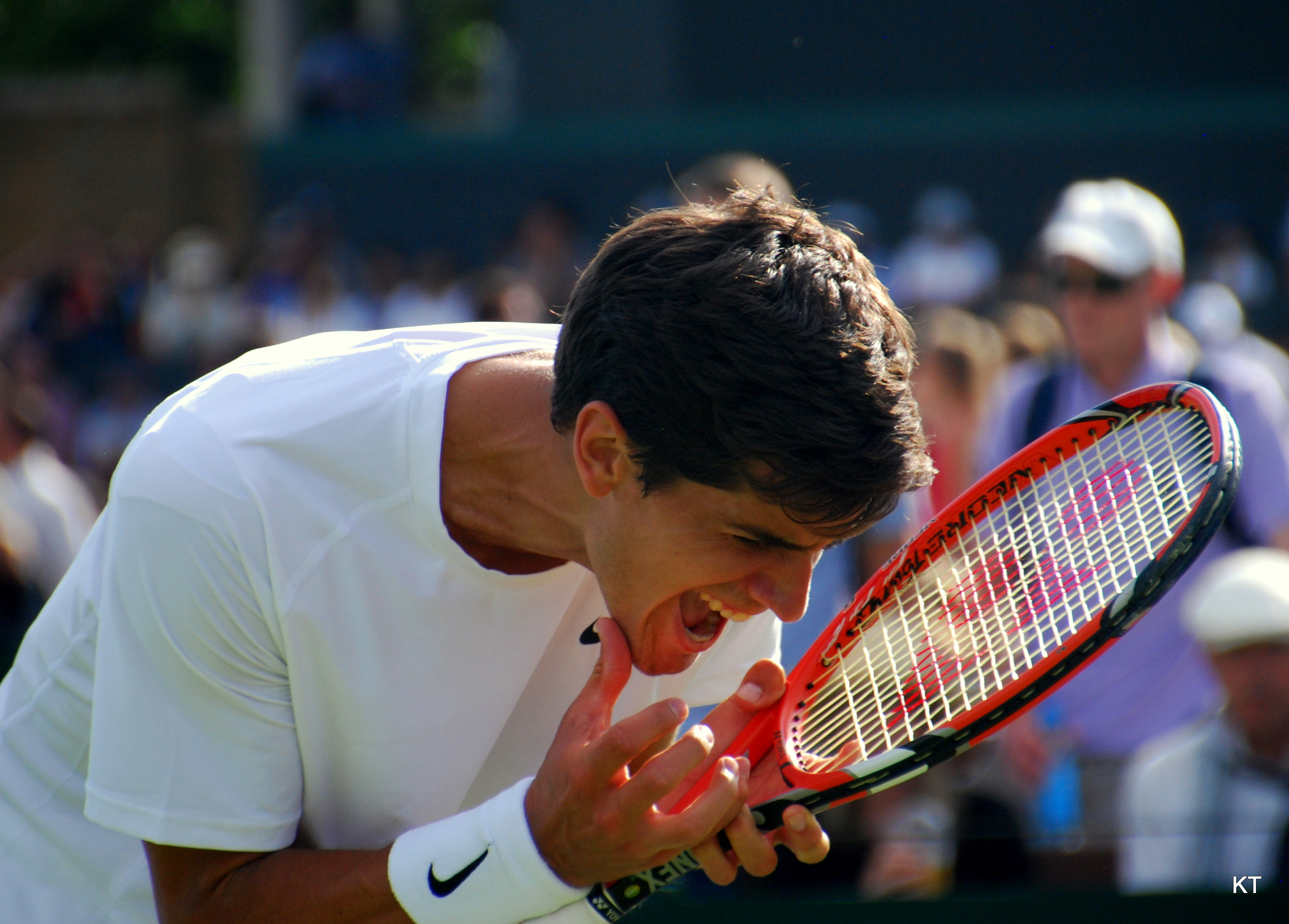 Pierre-Hugues Herbert. Day 2 of Wimbledon 2014.